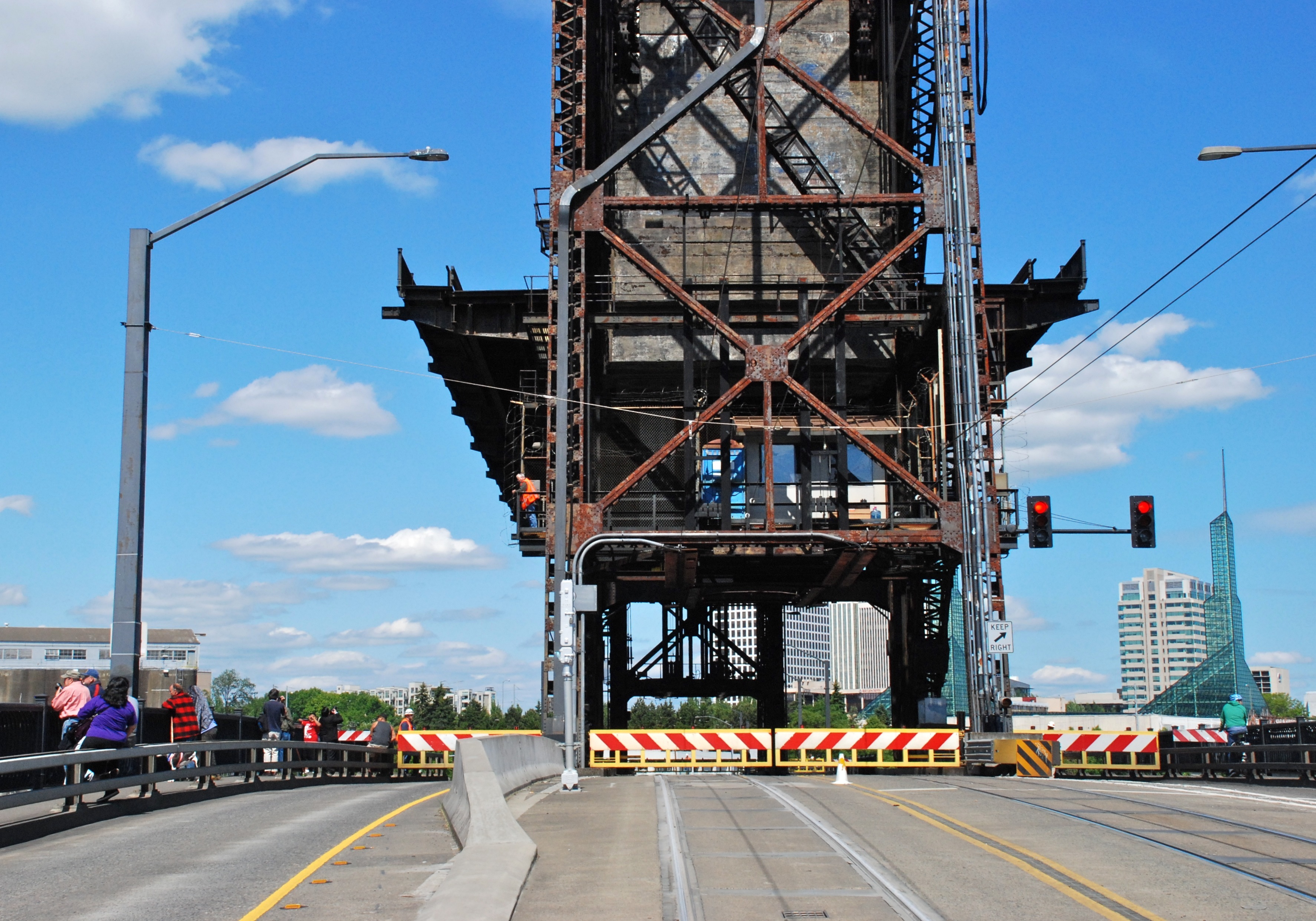 Roadway view of the Steel Bridge, in Portland, Oregon, with its vertical-lift span raised for a ship. This view is from the west deck, looking northeast towards the Lloyd District. At right is one of the two glass spires of the Oregon Convention Center. The lift span was in the process of being raised when the photo was taken and was not yet fully raised. When raised to the maximum height, the concrete counterweight visible at the top of this view will be all the way down to the level of the roadway. However, many ships that need the Steel Bridge to open are not tall enough to require the lift span to be raised to the maximum height.